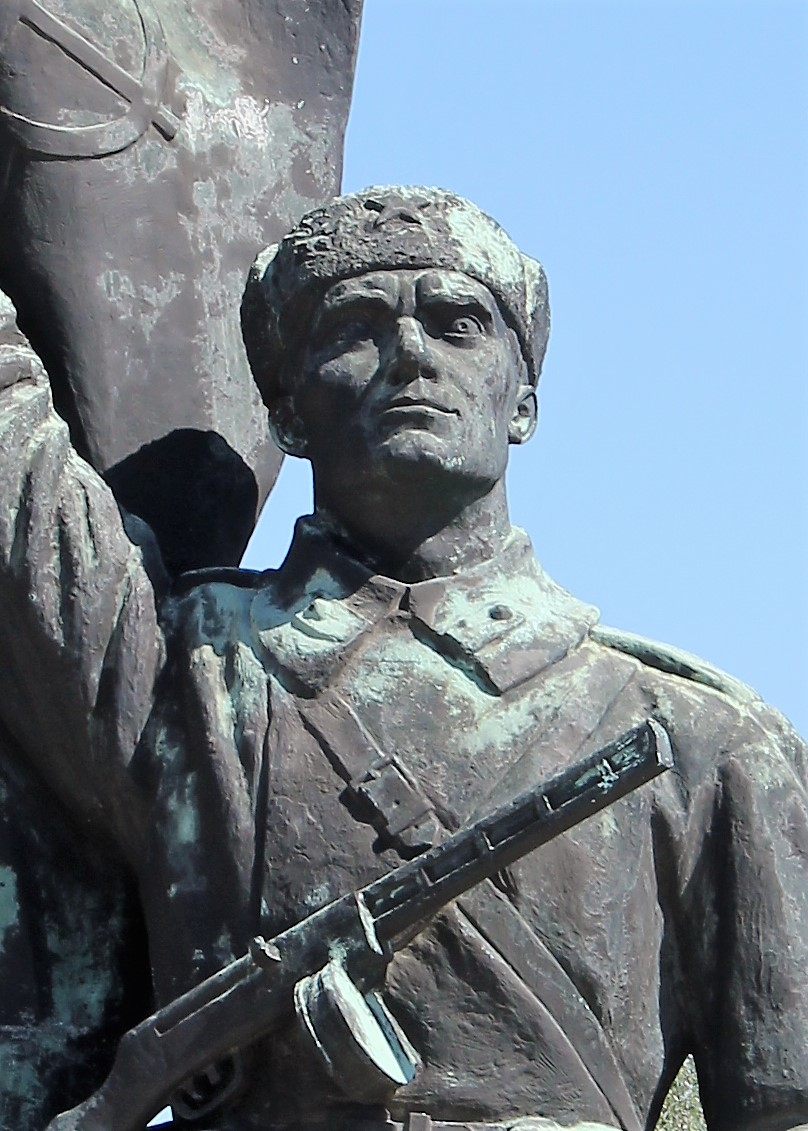 This one used to stand at the base of the Freedom Statue on Gellert Hill.